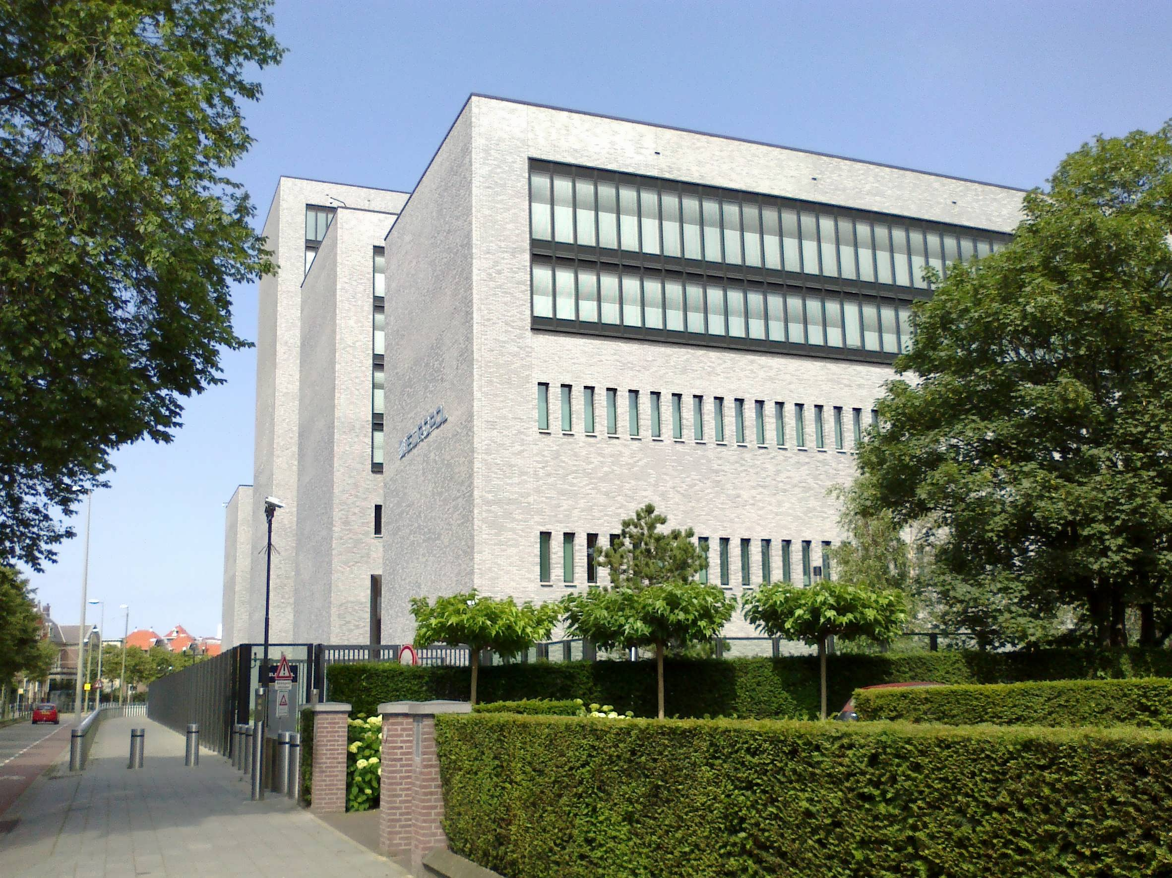 Europol Headquaters at the Eisenhowerlaan in The Hague, the Netherlands, which was opened by H.M. Queen Beatrix of the Netherlands in 2011.